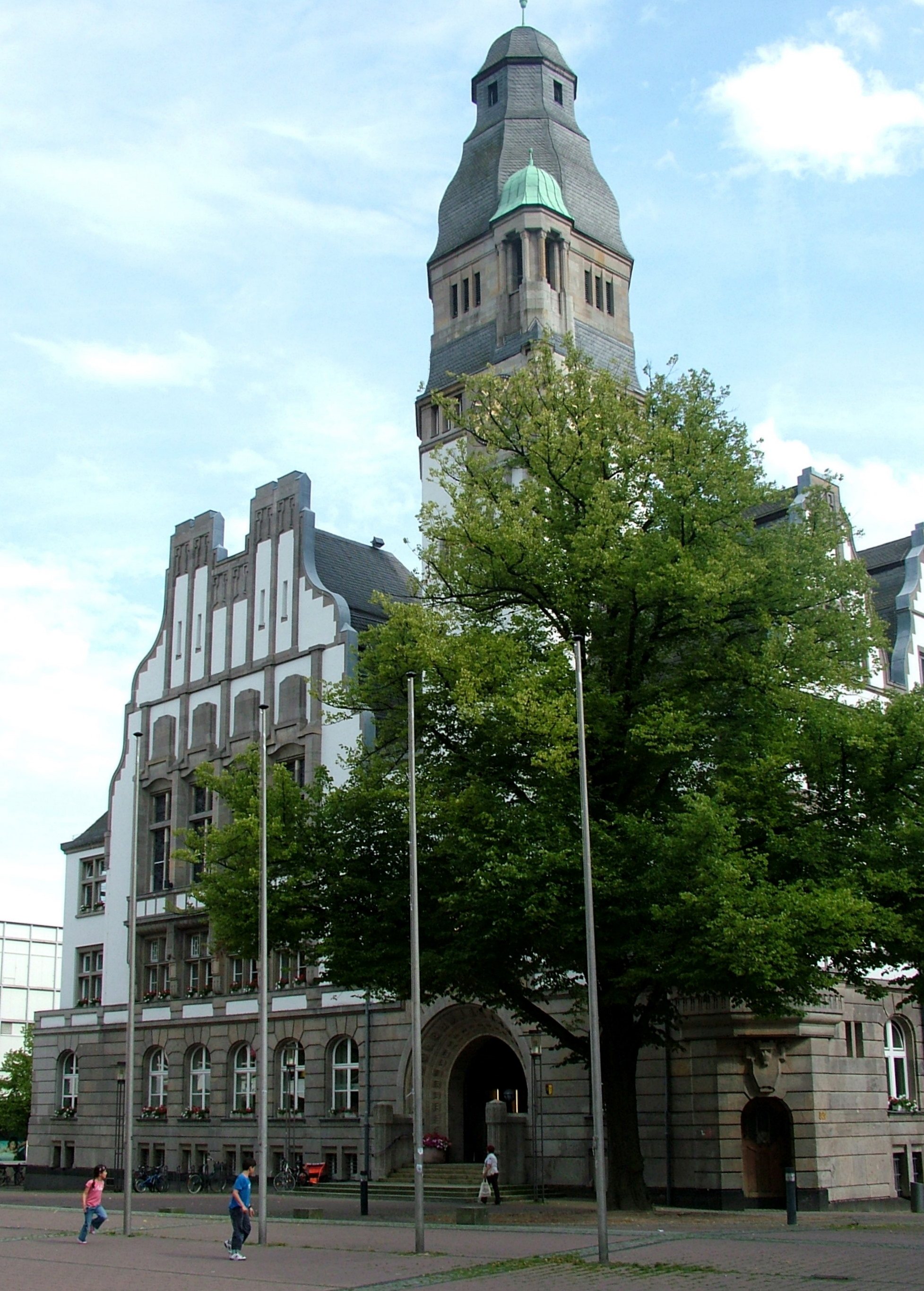 Gladbeck City Hall (historical)